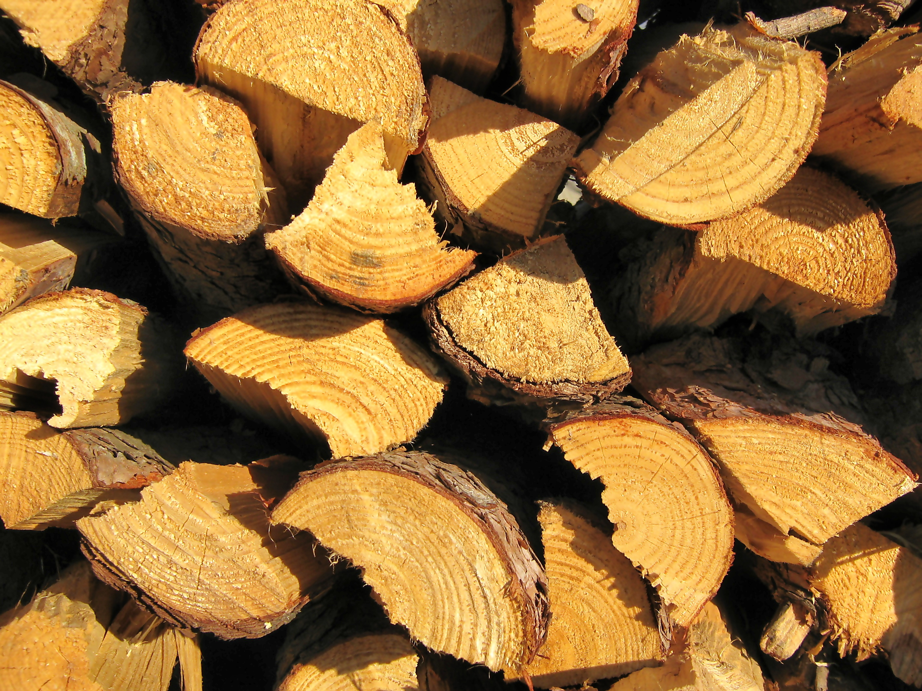 In Apr/May 2009, I took 15 days to walk all the way from Tokyo to Kyoto, roughly following the 546km long, ancient highway, the Nakasendo, alone. This picture was taken on day 5 of that long solo walk. Read about my preparations and my time in Japan at .